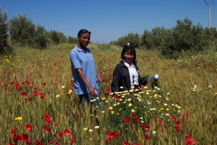 Mixture of landraces and CWR